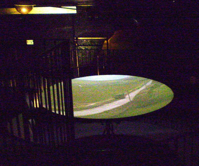 Image seen in the camara obscura of Foredown Tower, Portslade, Sussex, England